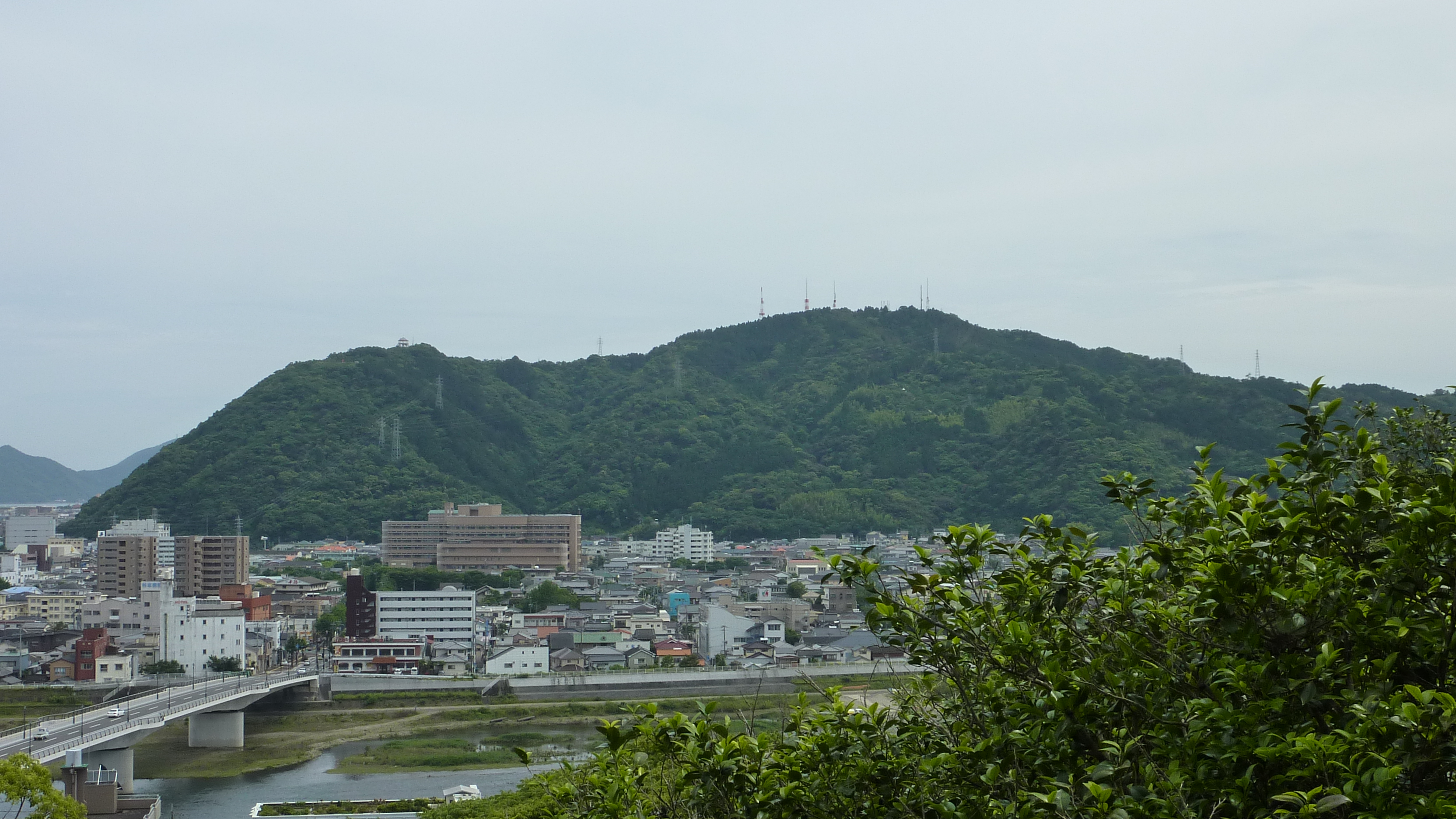 Mt.Atago from Former Nobeoka Castle (Nobeoka City, Miyazaki, Japan)